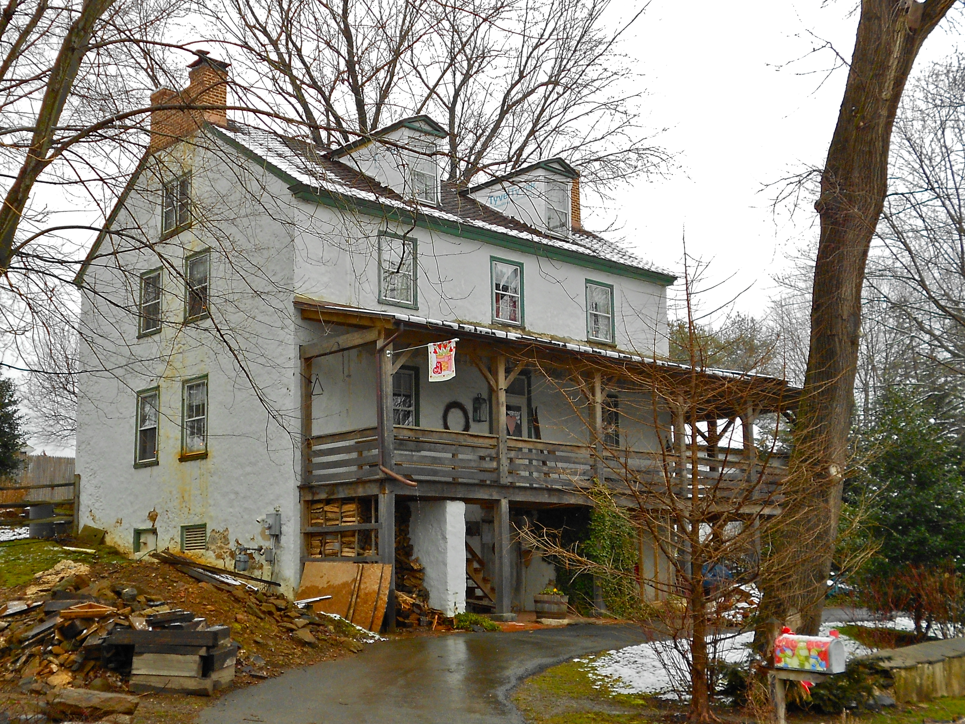 Joshua Pyle House and Wagon Barn on the NRHP since September 13, 1993. At 2603 Foulk Rd., Brandywine Hundred, near Wilmington, Delaware and the Pennsylvania border.